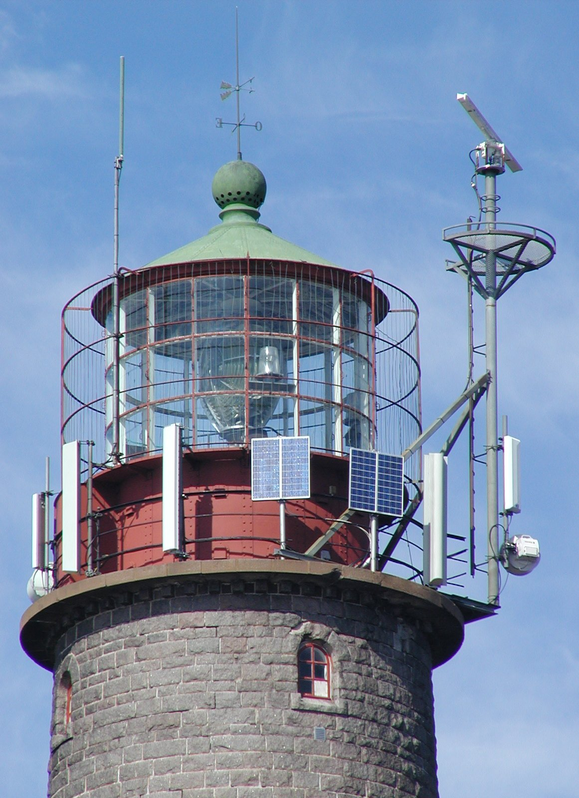 Bengtskär lighthouse